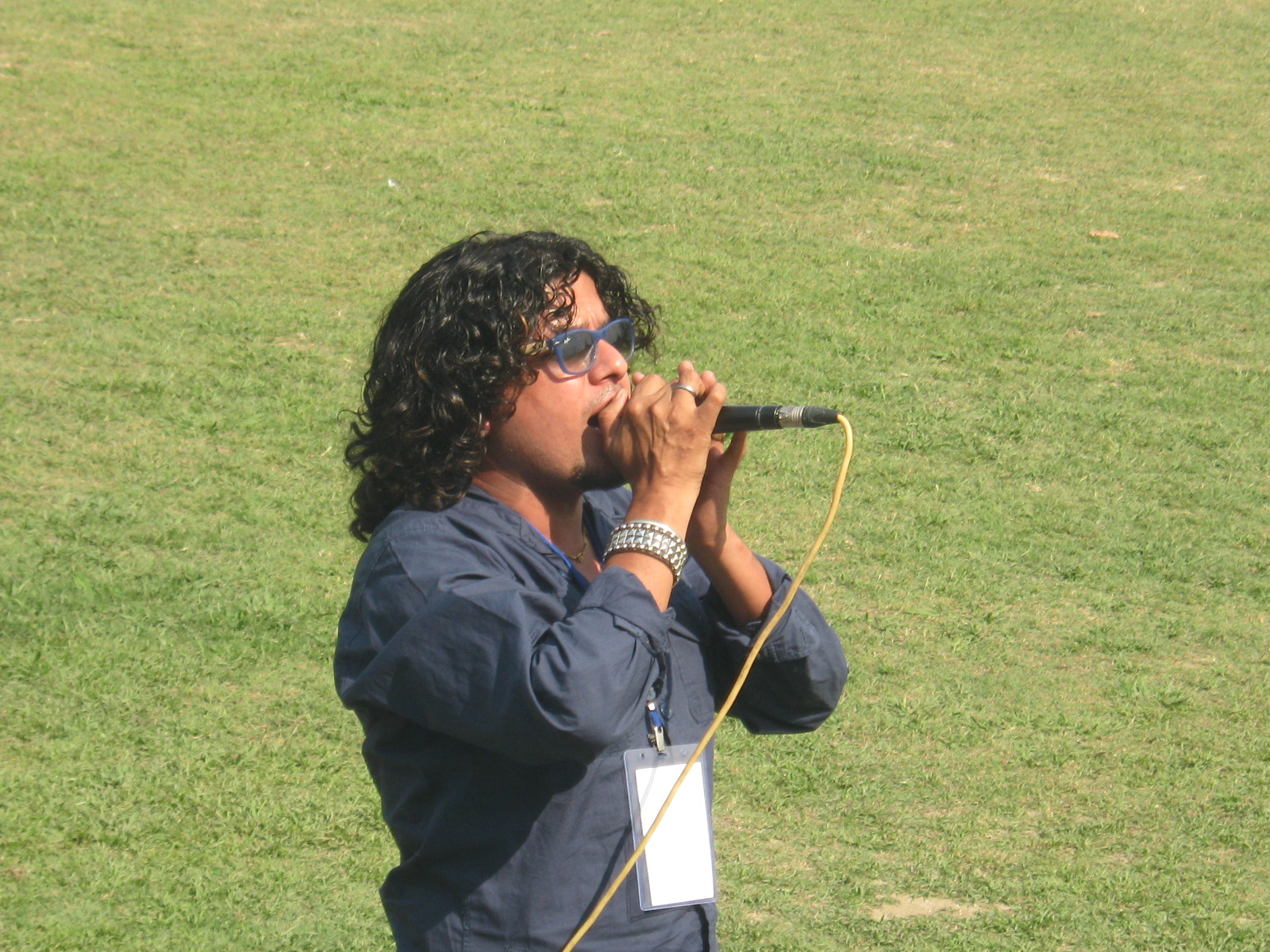 Nepali pop singer, singing national song during ACC Twenty20 Cricket 2013.